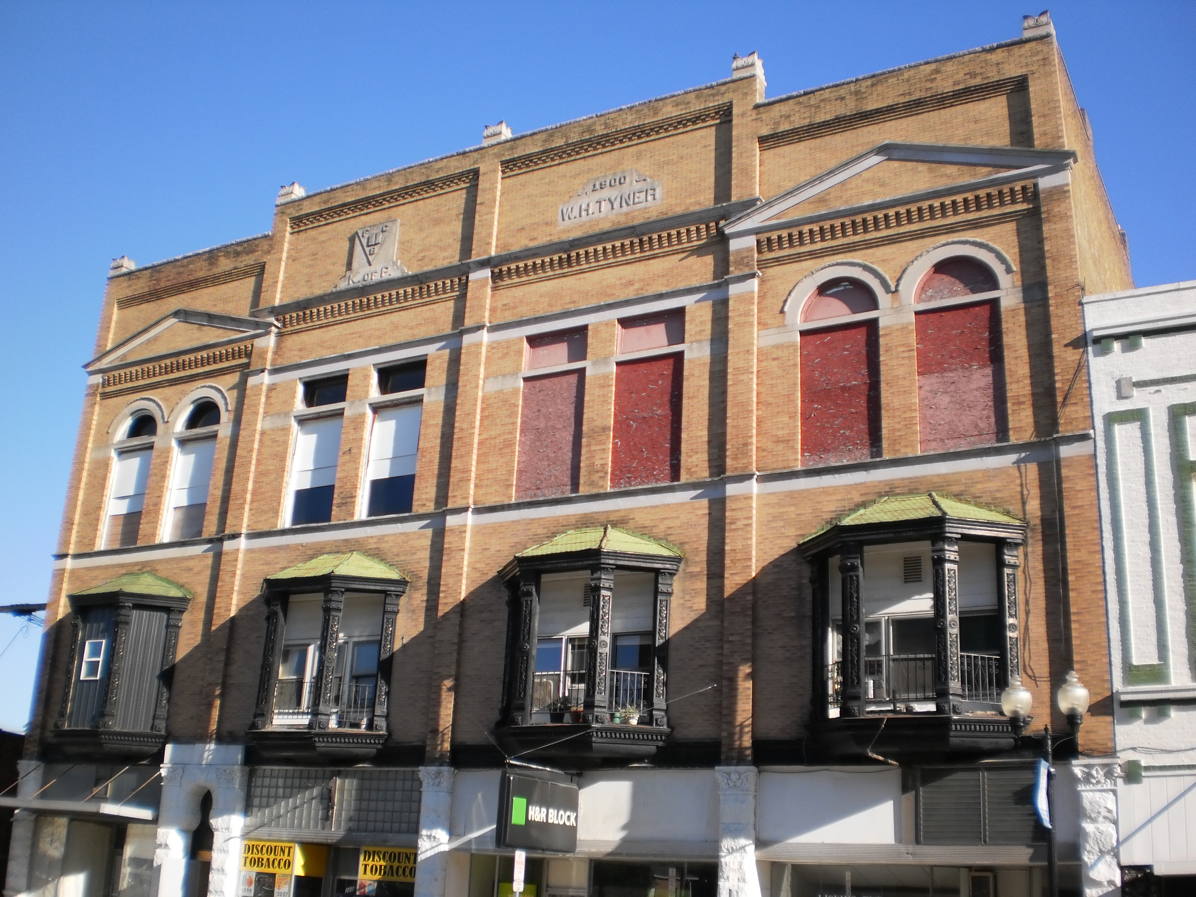 This Knights of Pythias / Tyner building is part of the Hartford City Courthouse Square Historic District in Hartford City, Indiana, USA. It was built between 1890 and 1910.